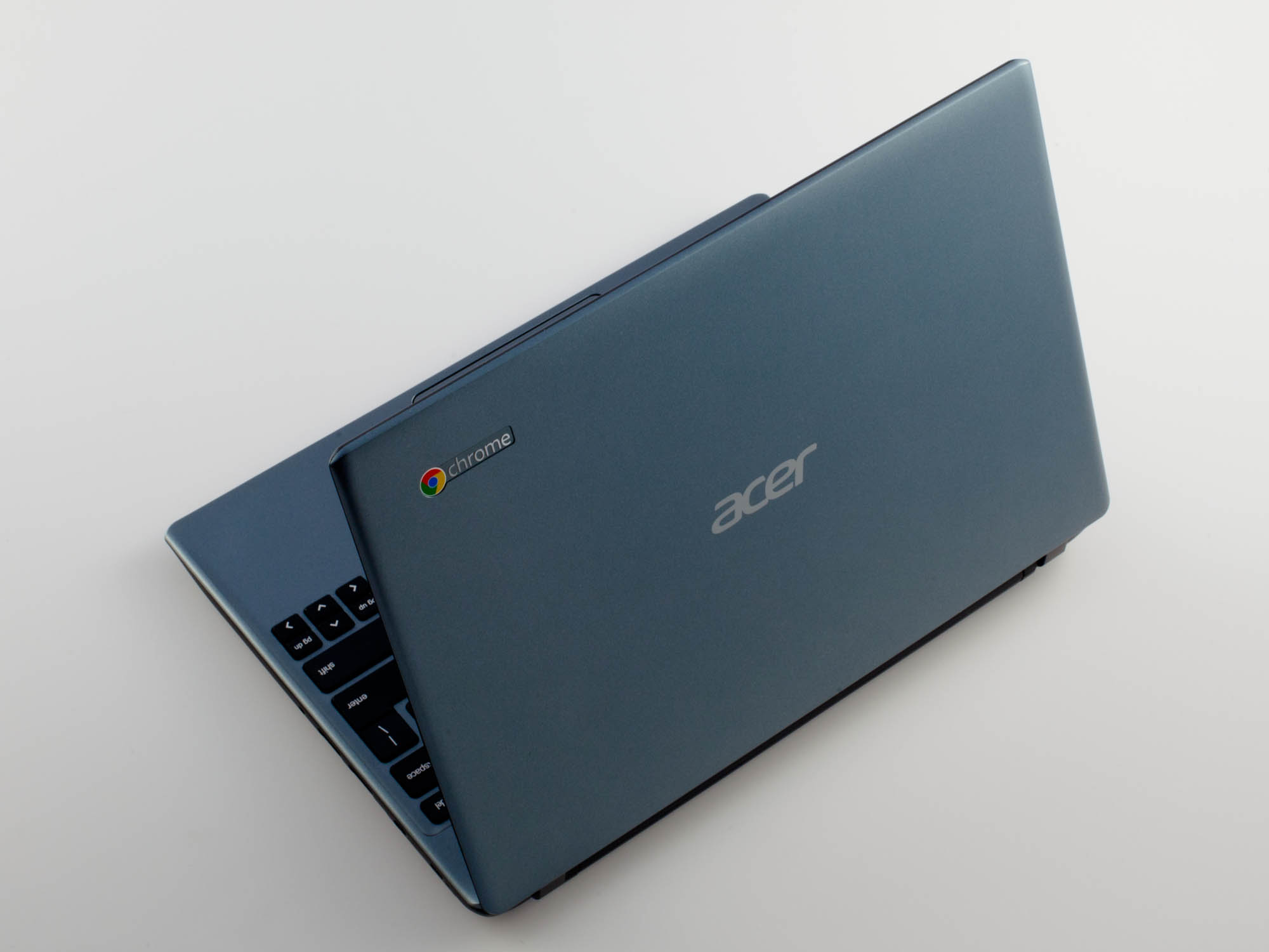 Acer Chromebook model C7